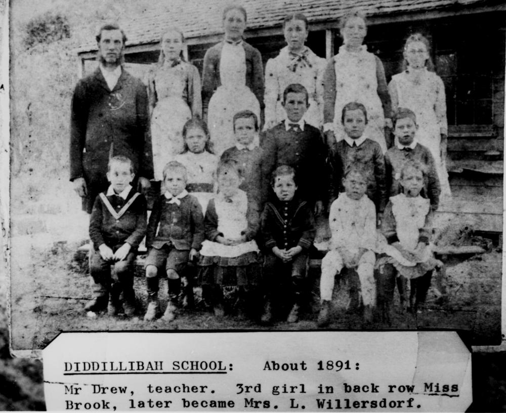 Diddillibah Provisional School students, ca. 1891. Group photograph of the teacher and students of Diddillibah Provisional School. The sixteen students are in three rows with the front row sitting. The girls are wearing dresses while a few of the boys wear sailorsuits. The group is assembled outside the school building. Caption: ...Mr Drew, teacher. 3rd girl in back row Miss Brook, later became Mrs. L. Willersdorf.